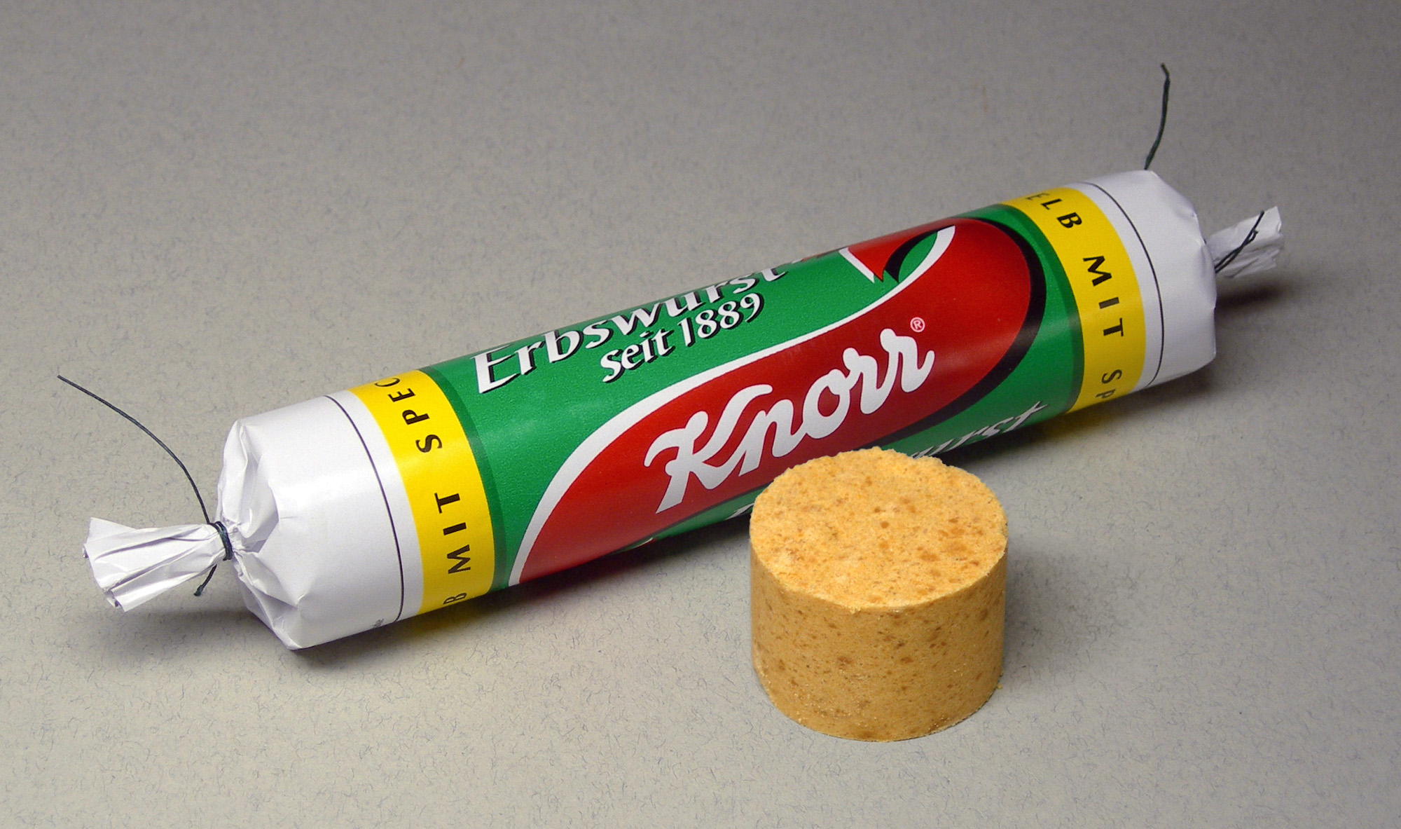 Erbswurst, a traditional instant pea soup from Germany